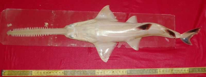 Dorsal view of knifetooth sawfish (Anoxypristis cuspidata) from Karachi, Pakistan (dorsal view).